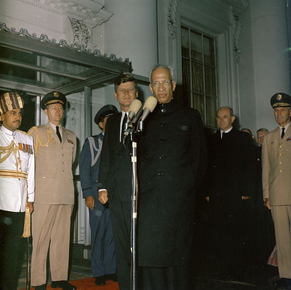 President Dr. Sarvepalli Radhakrishnan of India speaks at arrival ceremonies in his honor. Left to right: unidentified Indian military aide; Military Aide to President Kennedy, General Chester V. Clifton; Air Force Aide to President Kennedy, Brigadier General Godfrey T. McHugh (mostly hidden); President John F. Kennedy; President Radhakrishnan; Secretary of State, Dean Rusk; General Maxwell D. Taylor. North Portico, White House, Washington, D.C.